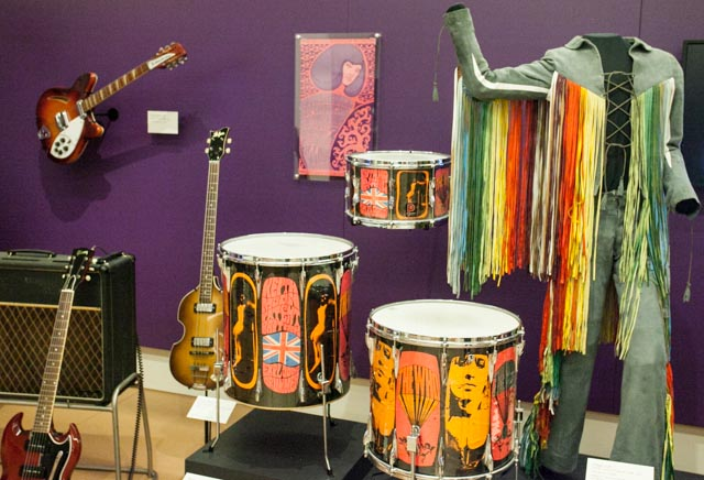 We read about the Musical Instrument Museum (MIM) on Trip Advisor - it was the top rated attraction in Phoenix - and now we can see why! The museum is dedicated to musical instruments from around the world - the collection is fascinating, the exhibits are great and the hands-on displays were fun. We spent almost 5 hours here and still felt rushed - this place is definitely worth a detour. I know nothing about musical instruments so if you happen to know what a particular instrument is, please feel free to comment on it. I tried to include as many labels as possible. The museum is in Phoenix, AZ - we visited it in March 2014.